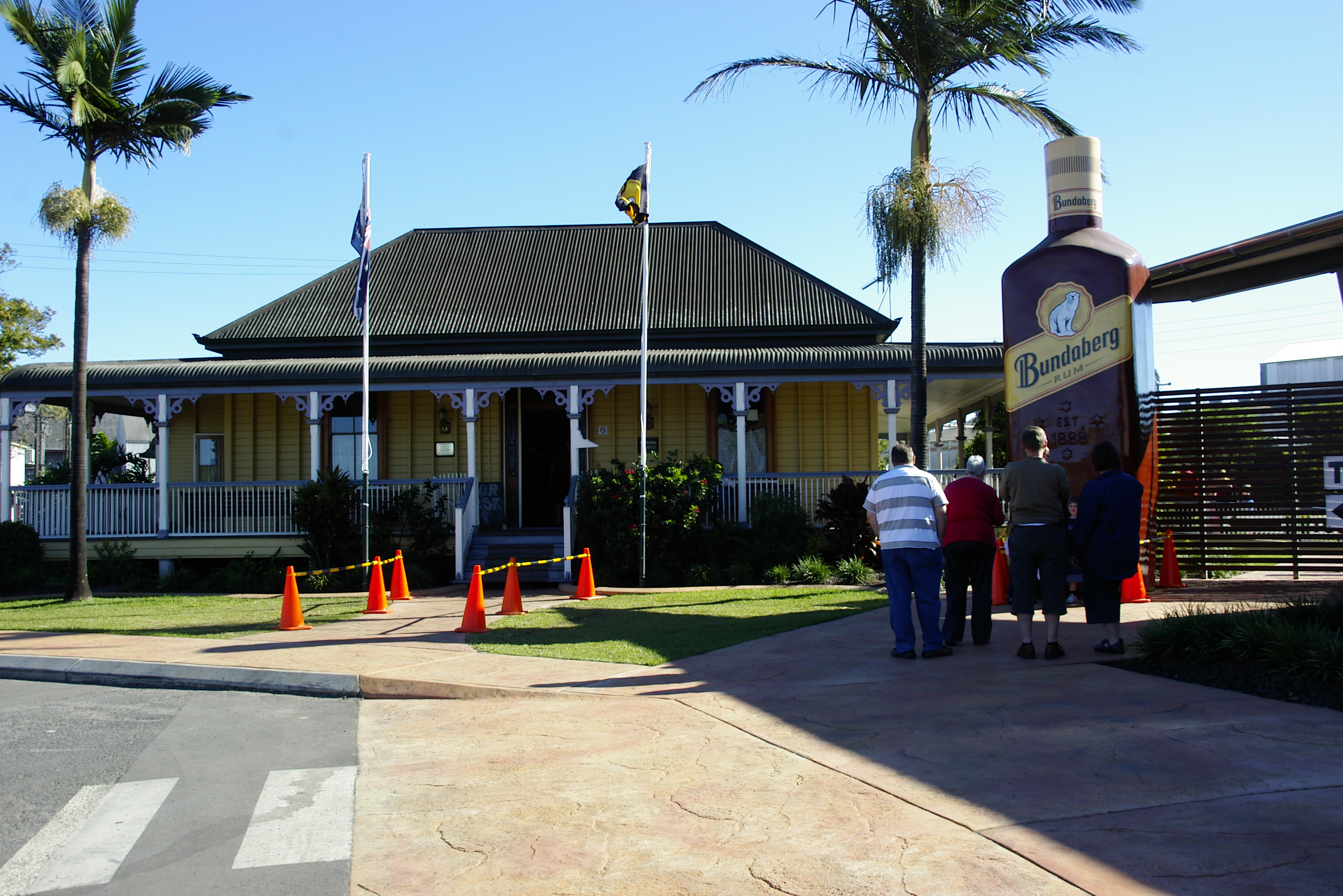 Visitors building Bundaberg Rum destillery.